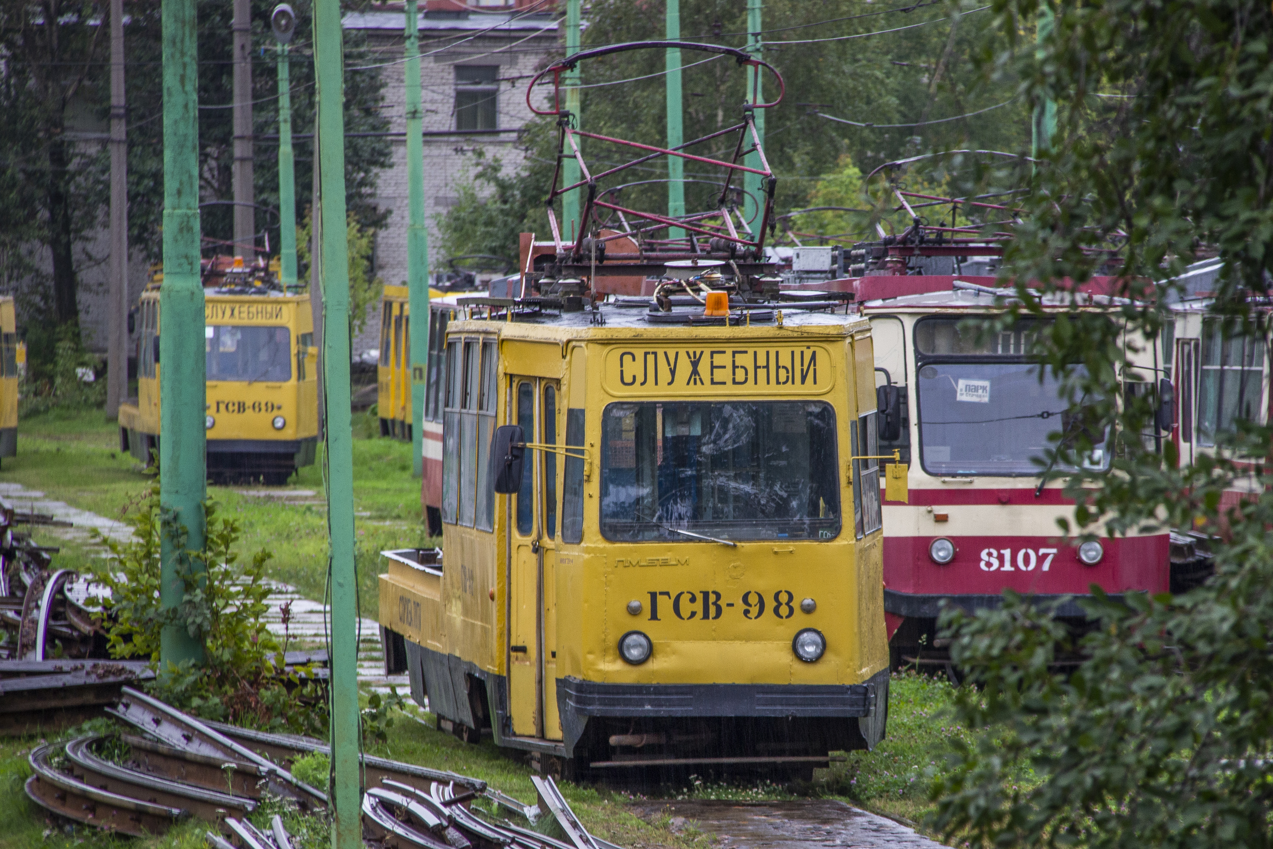 ЛМ-68М